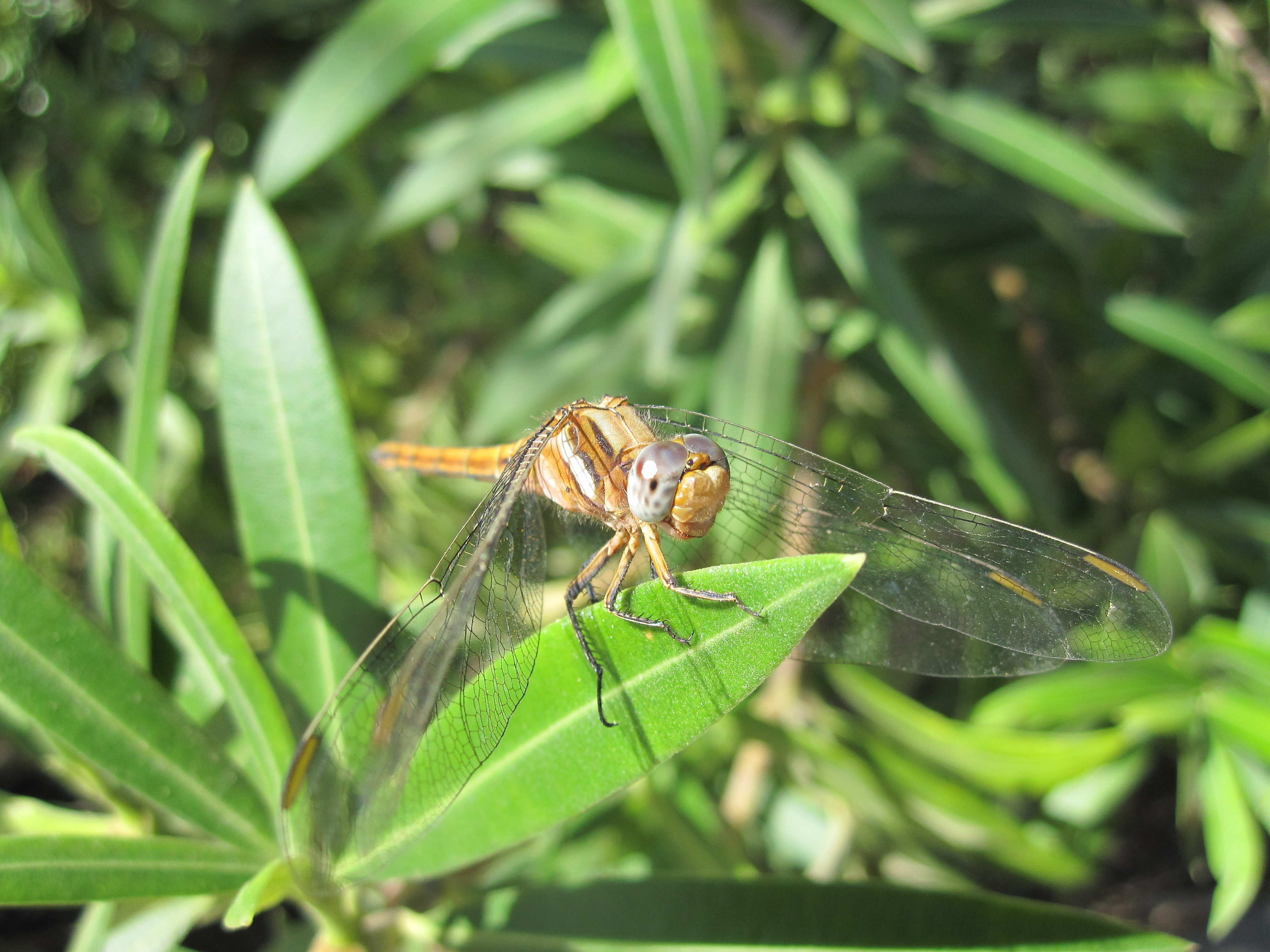 Dragonfly (Orthetrum chrysostigma) met in Playa del Ingles - Gran Canaria (Canary Islands)